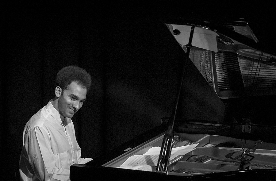 David Virelles performs with Tomasz Stanko at Cosmopolite Scene in Oslo on 9.4.16. Lineup: Tomasz Stanko (trumpet), David Virelles (piano), Reuben Rogers (bass), Gerald Cleaver (drums).